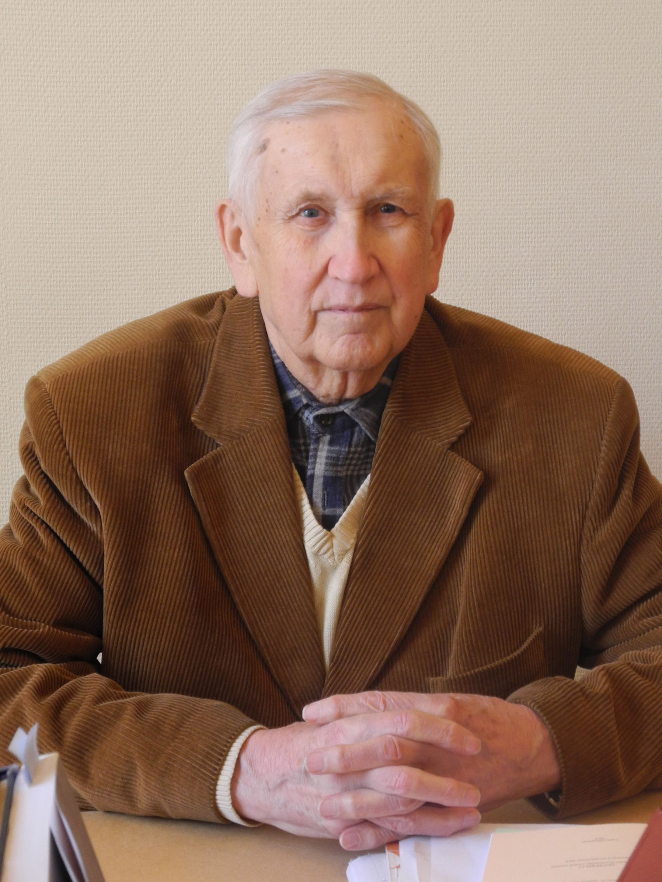 Evgeny Ivanovich Kychanov